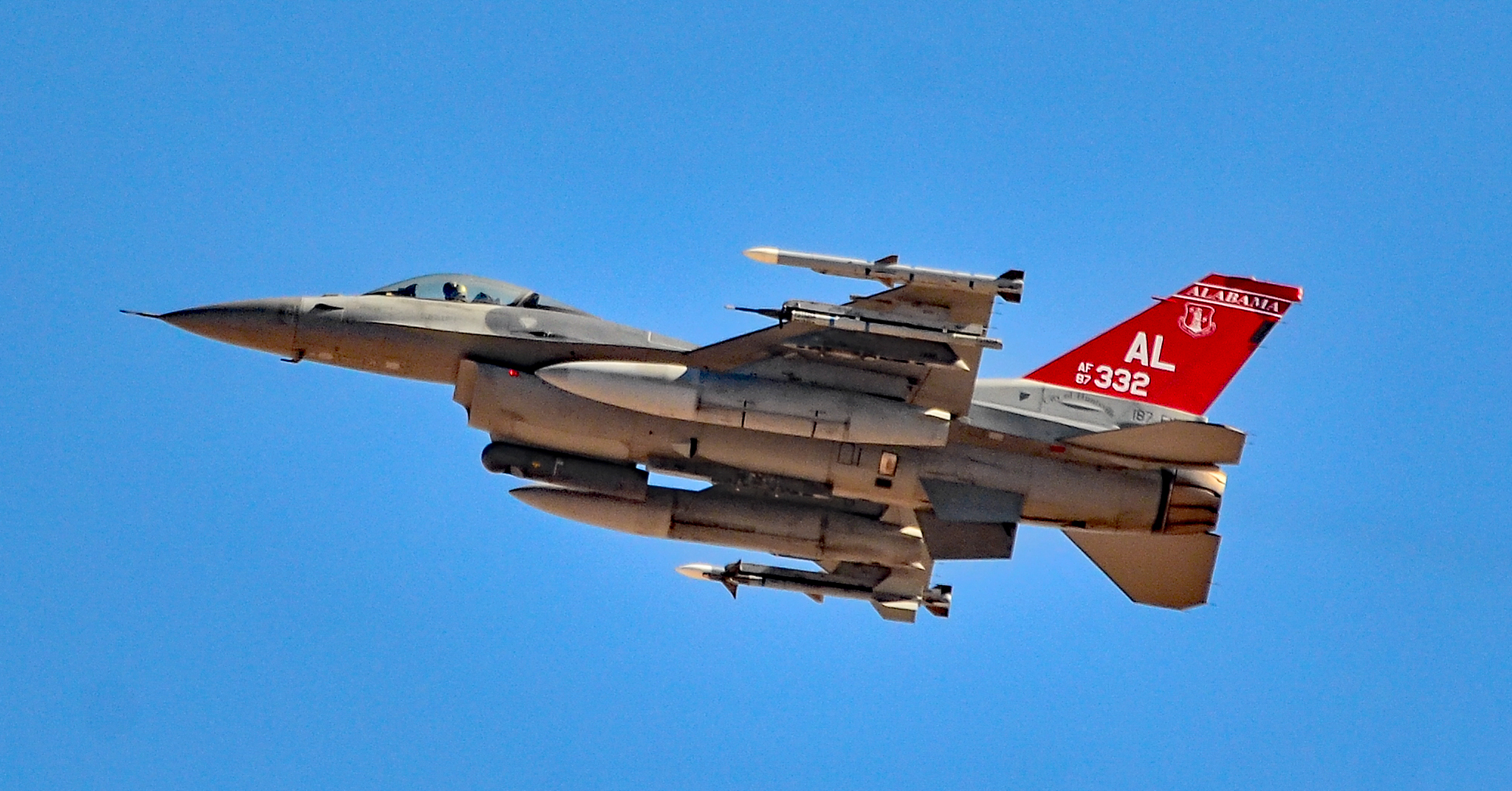 Red Flag 17-2 Las Vegas - Nellis AFB (LSV / KLSV) USA - Nevada, March 1, 2017 Photo: TDelCoro